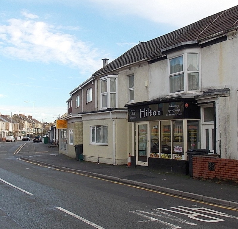 Indian kebab and tandoori takeaway at 72 Port Tennant Road in the St Thomas area of Swansea, Wales